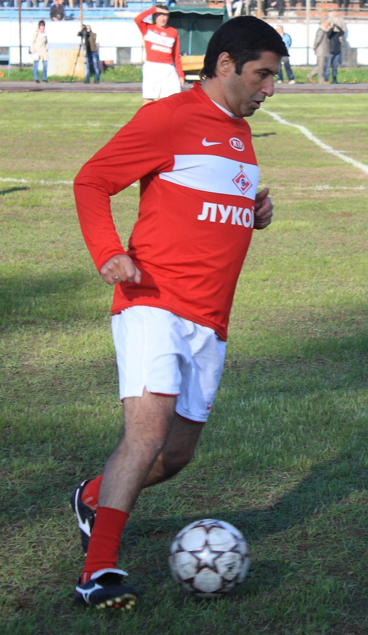 Ramiz Mikhmanovich Mamedov (Russian: Рамиз Михманович Мамедов) (born August 21, 1972 in Moscow) is a retired Russian football player with Azerbaijanians roots.